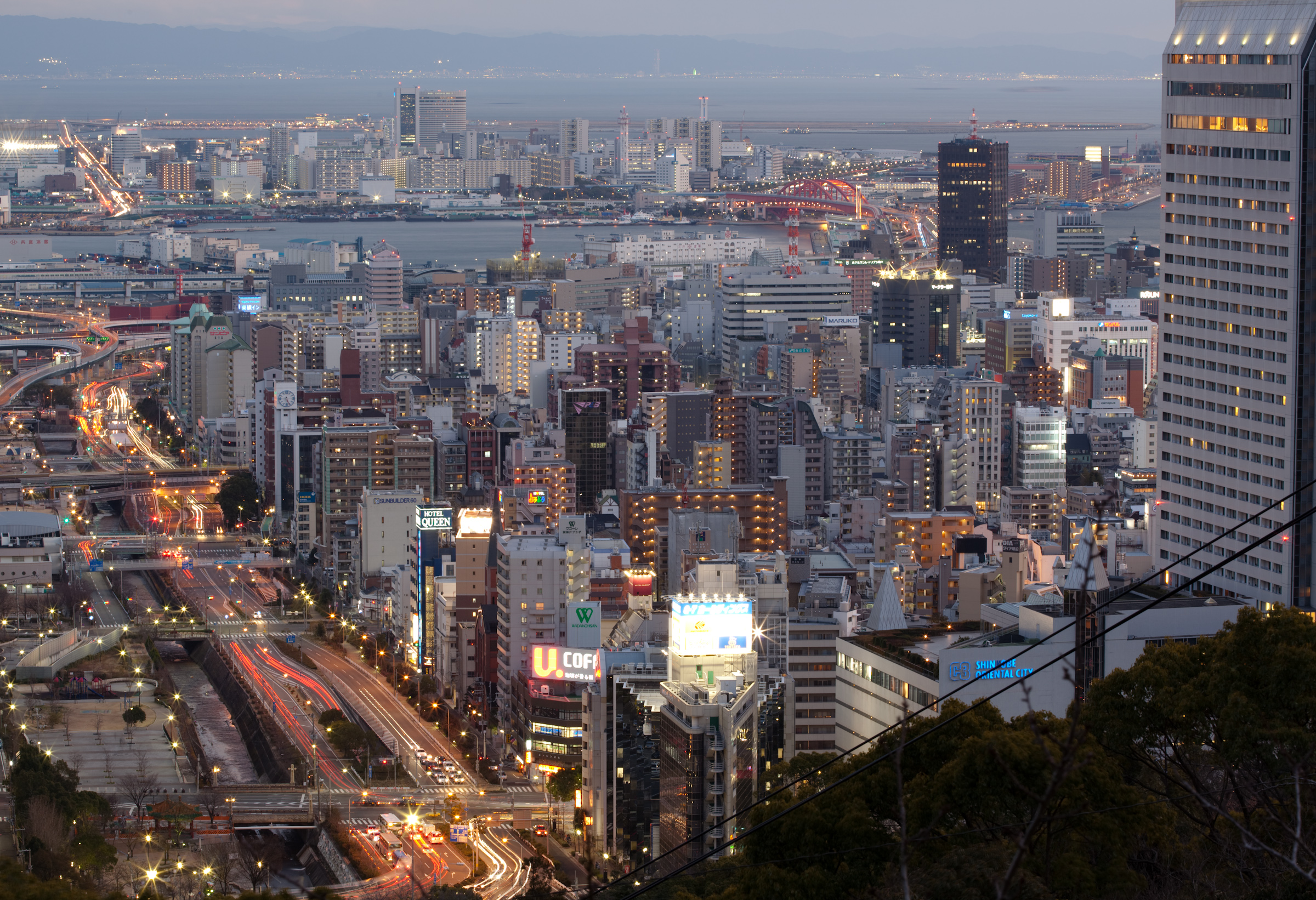 Twilight view of Kobe, taken near Shin-Kobe station from Rokko Mountains, Kobe, Hyogo, Japan.